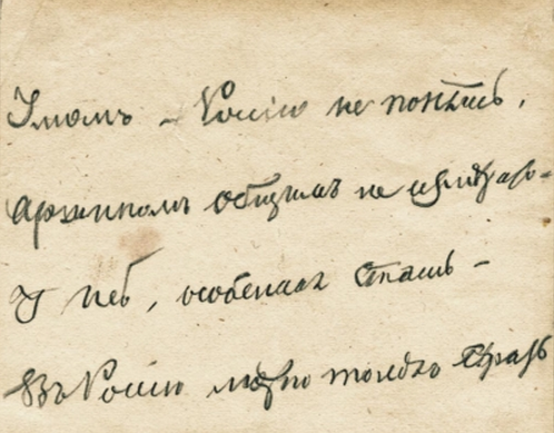 Autograph of "Who would grasp Russia with the mind"